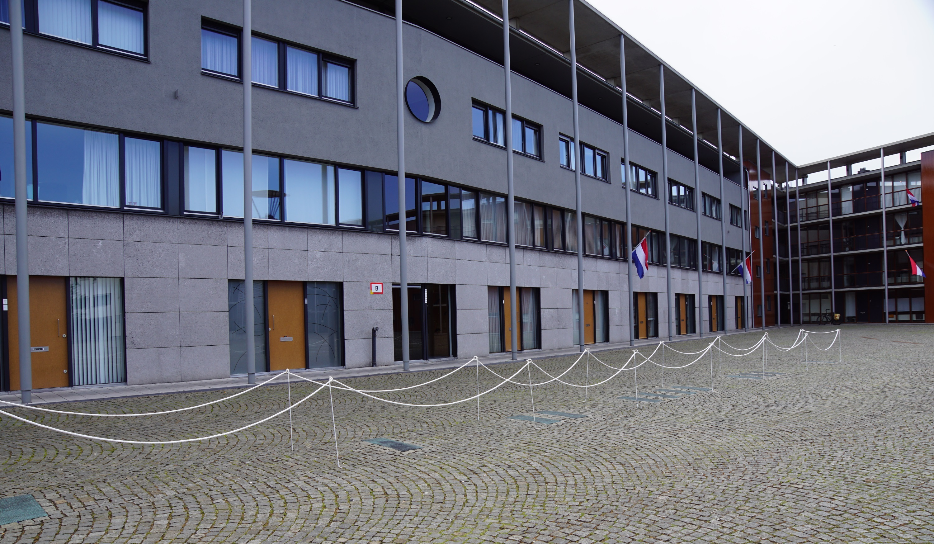 Monument for jewish war victims, Herdenkingsplein, Maastricht, The Netherlands. By Appie Drielsma, 1997.